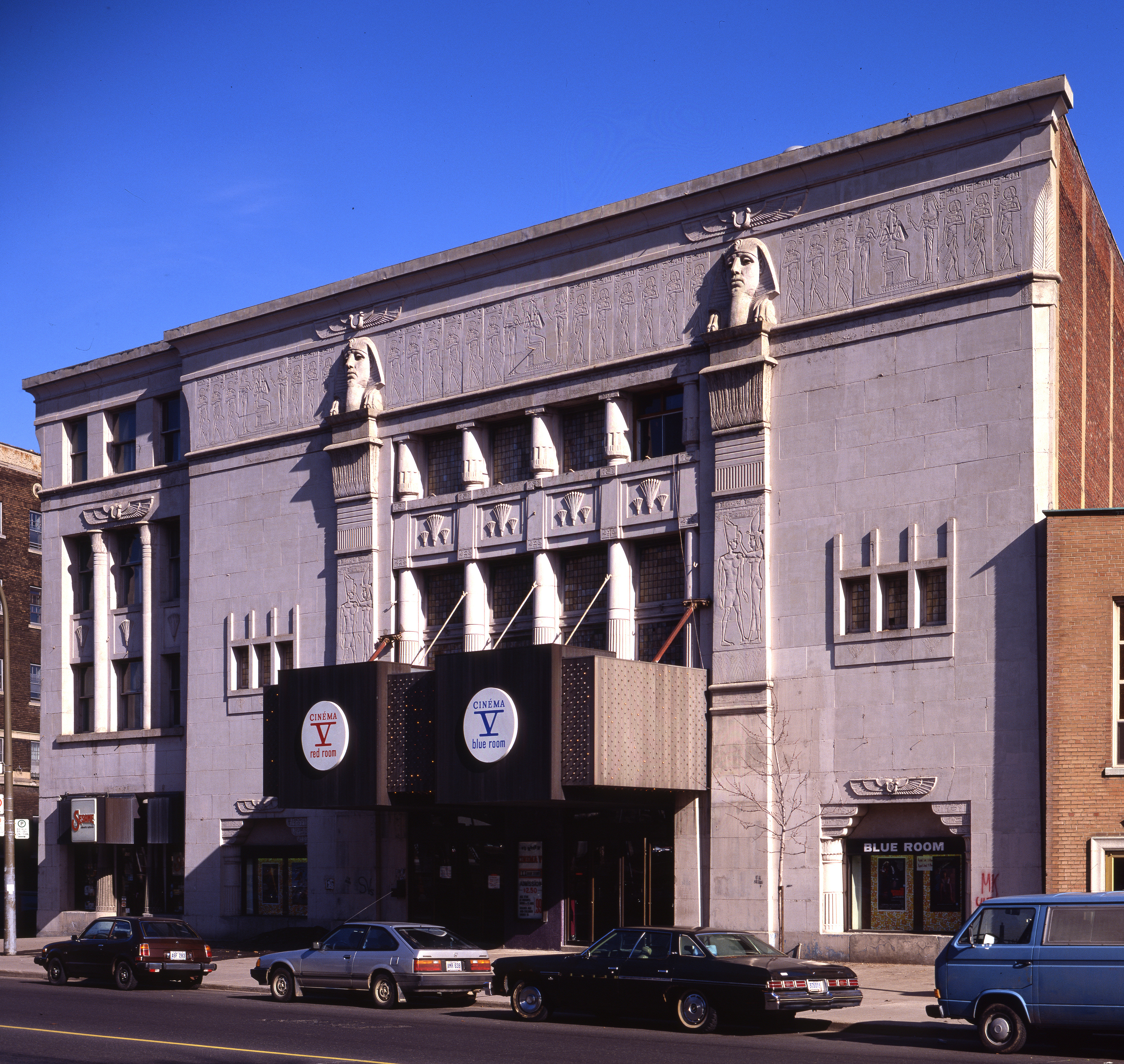 After many years of neglect the Empress is now undergoing extensive renovations in order to convert it into a cultural centre for the NDG community